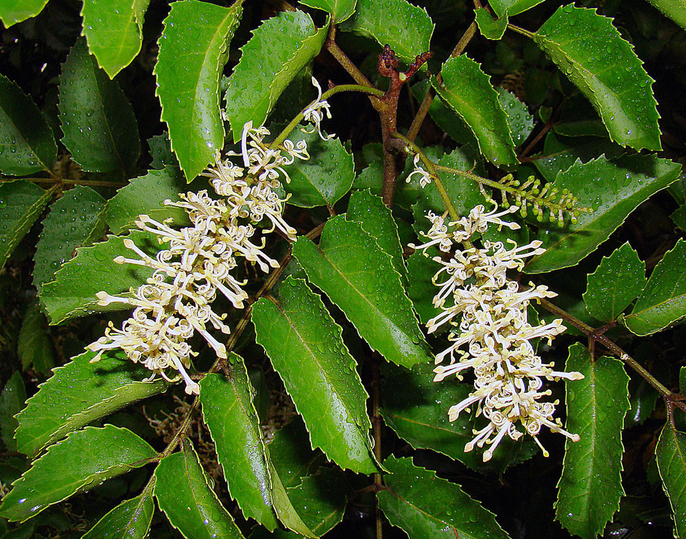 Known as the Chilean Hazel in English, but as Avellano in Chile. In context at